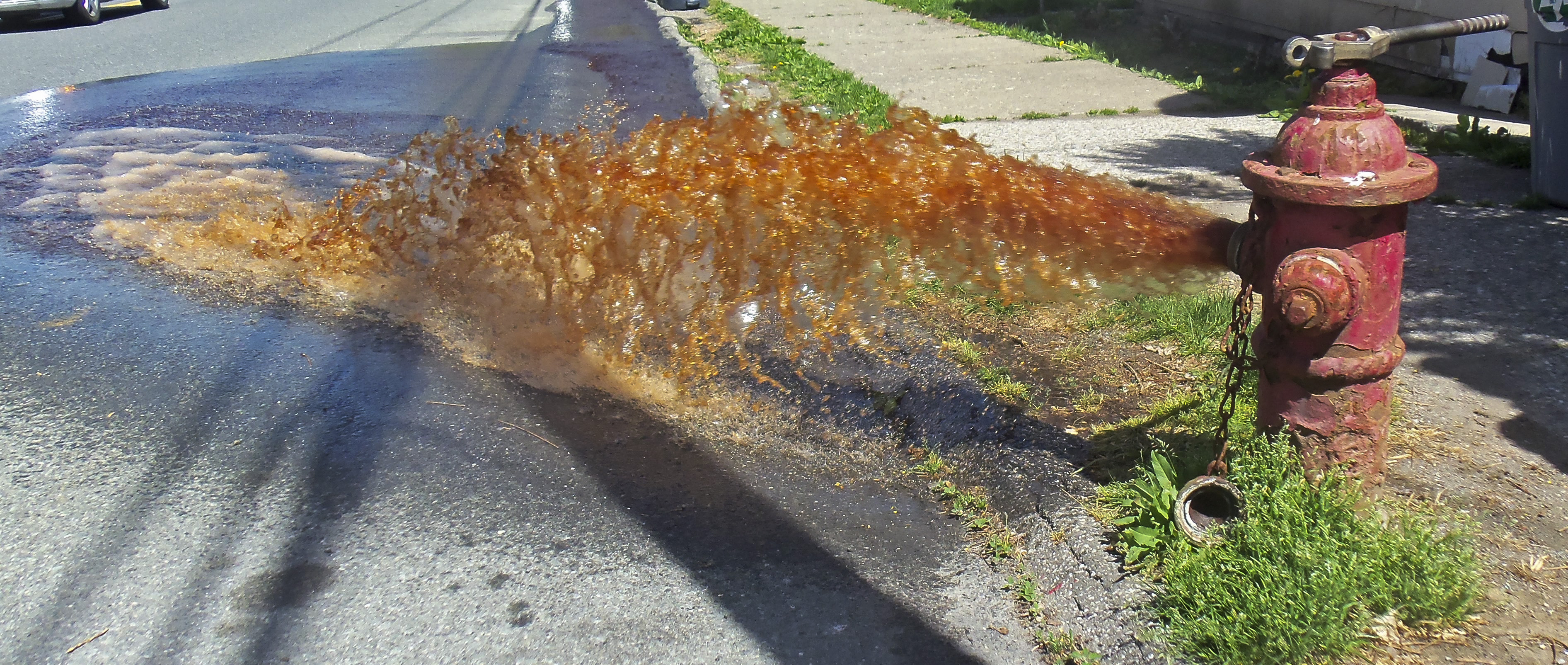 Fire hydrant being flushed in springtime, with water discolored by accumulated rust